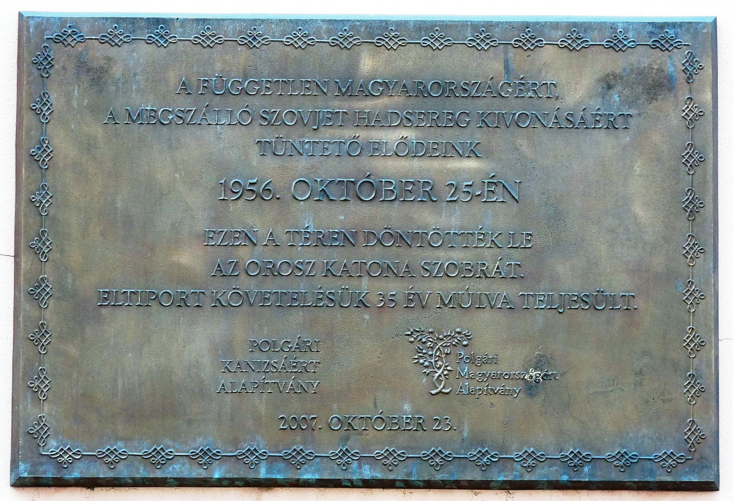 Commemorative plaque to the manifestation on October 25, 1956 in Nagykanizsa pending the 1956 revolution in Hungary, during which the crowd toppled the statue of the Soviet soldier. (Nagykanizsa, Erzsébet Square Nr 1)